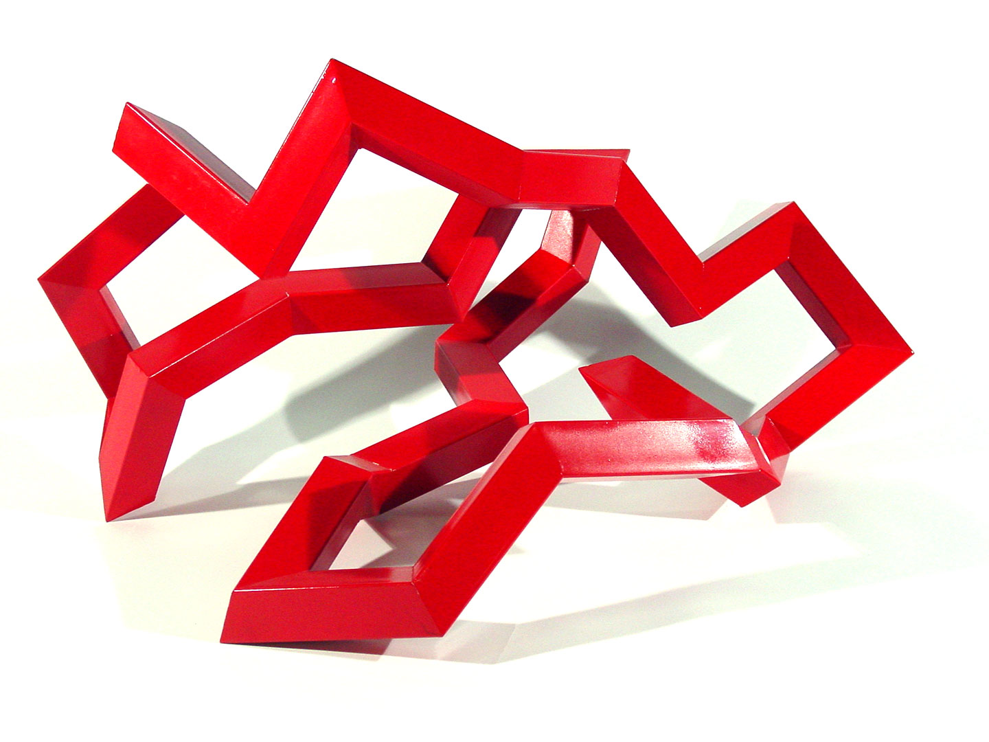 Kalata, 2002 Sculpture based on the structure of the protein kalata B1 Painted steel, length 3' (90 cm)